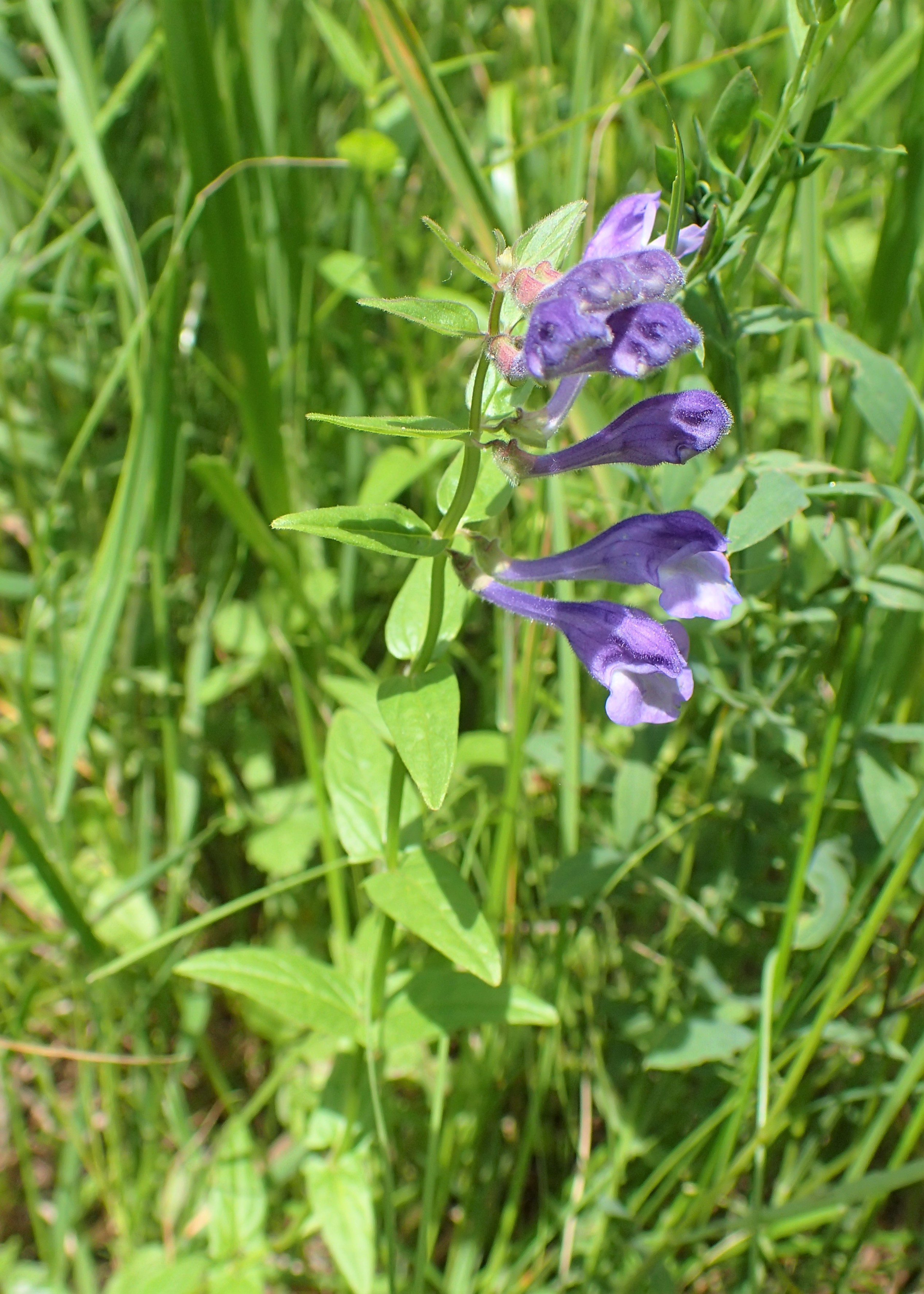 Scutellaria hastifolia in Czechów near Gorzów Wlk., W Poland